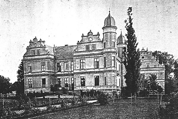 Pansevitz Manor House, Rügen Island, Germany